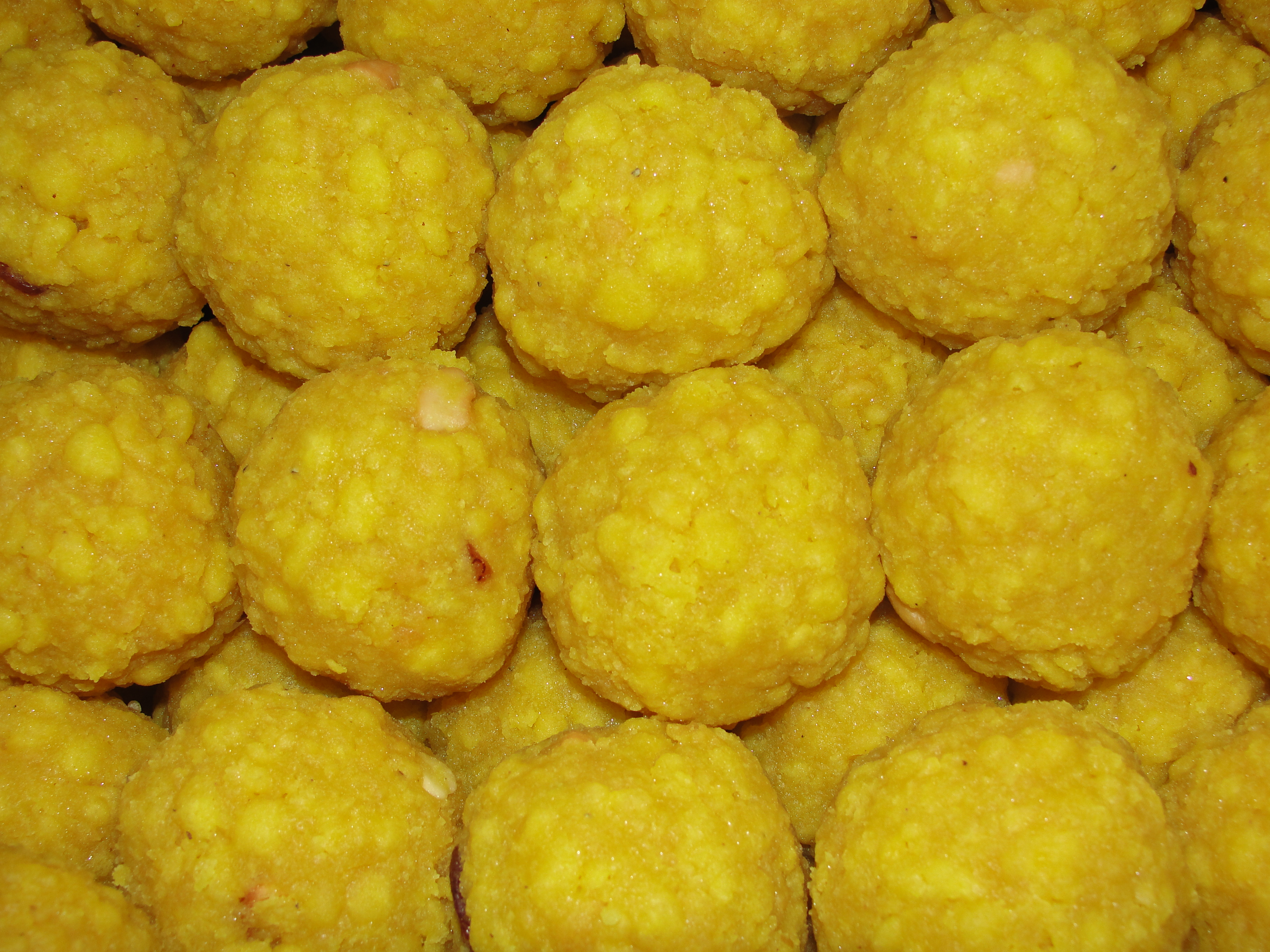 Laddu or Laddoo is a ball-shaped sweet popular in South Asian countries including India, Pakistan, Nepal and Bangladesh as well as countries with immigrants from South Asia.